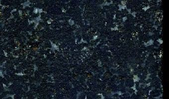 Gabbro from Slovakia. Slovak Ore Mountains, Western Carpathians.